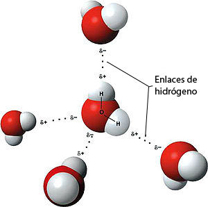 h2o